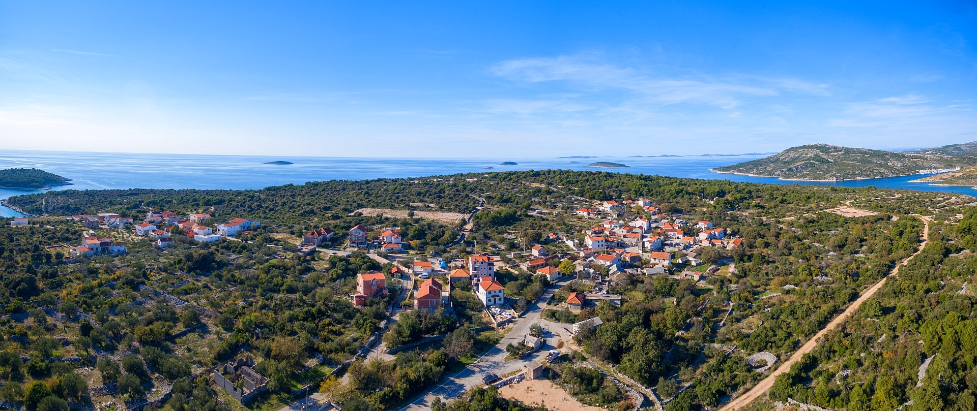 Zečevo, a village in Croatia